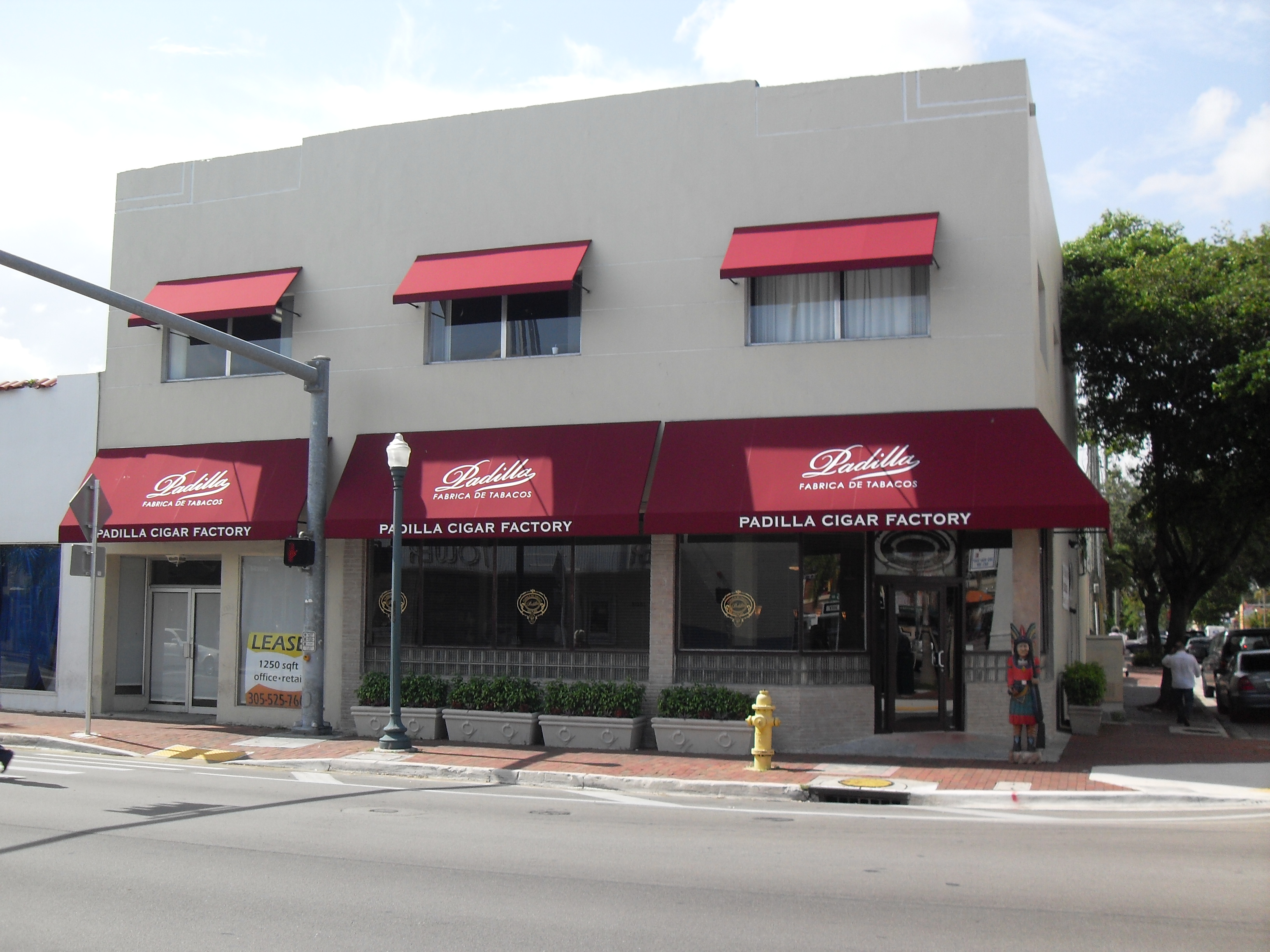 One of many cigar factories in calle ocho, Miami